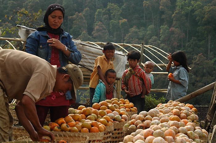 Persimmon